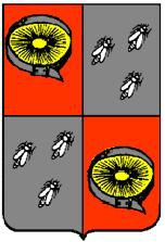 Chieppa_009 Gigi Chieppa